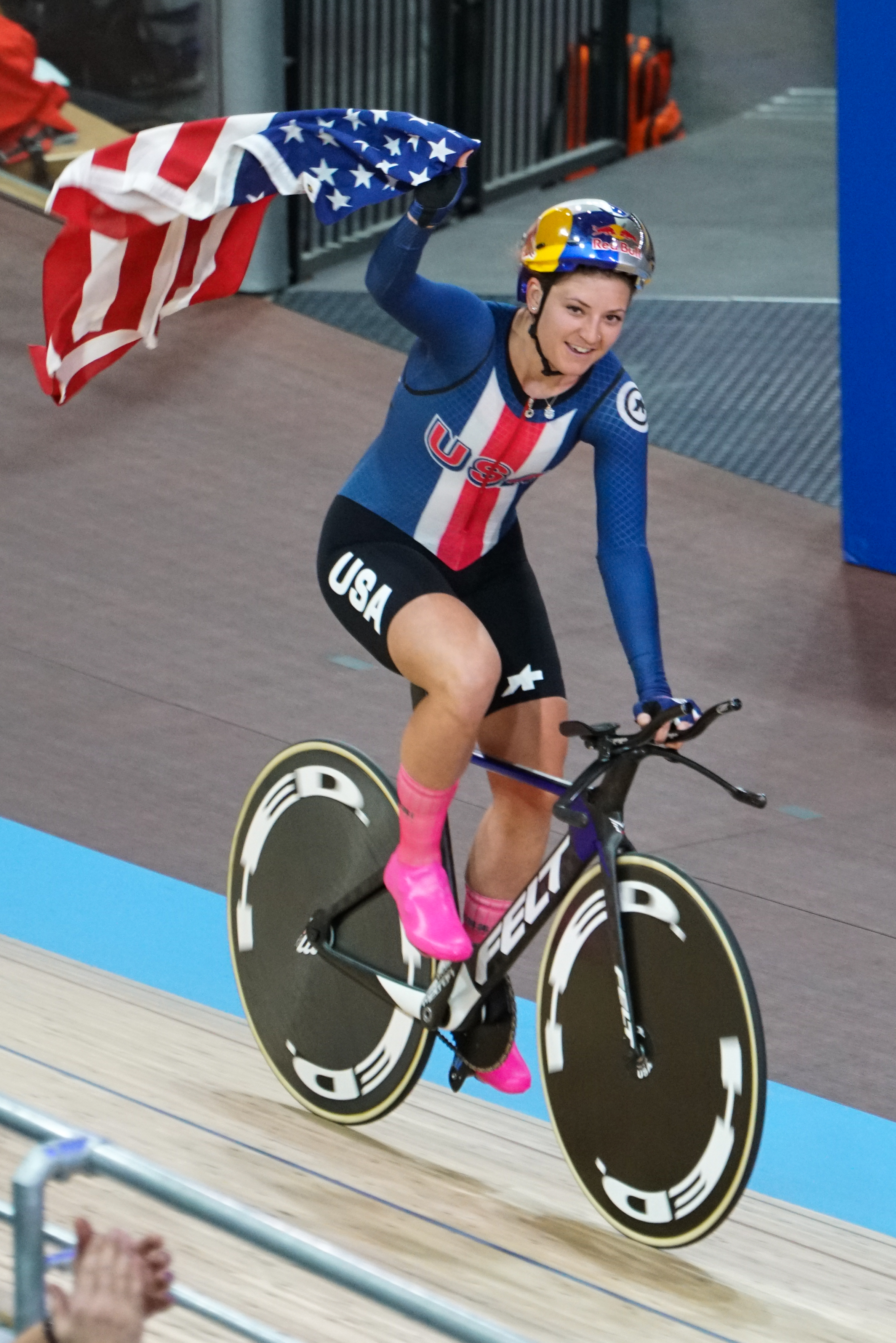 2020 UCI Track Cycling World Championships – Women's Team Pursuit Finals - Chloe Dygert